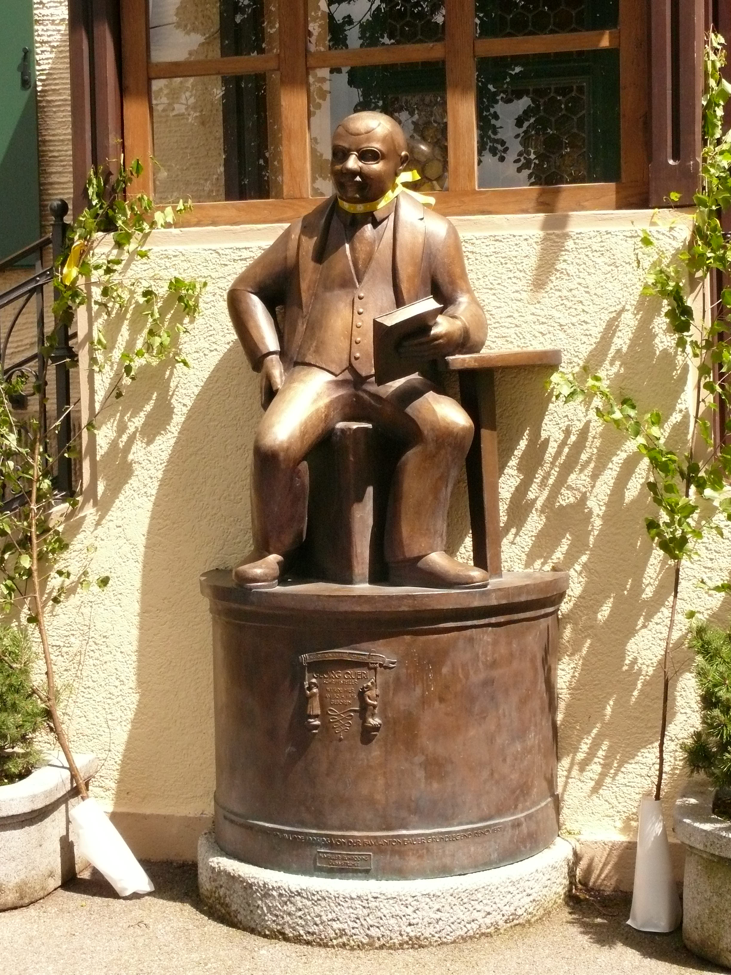 Georg Queri Monument at his house of birth in Frieding, Germany